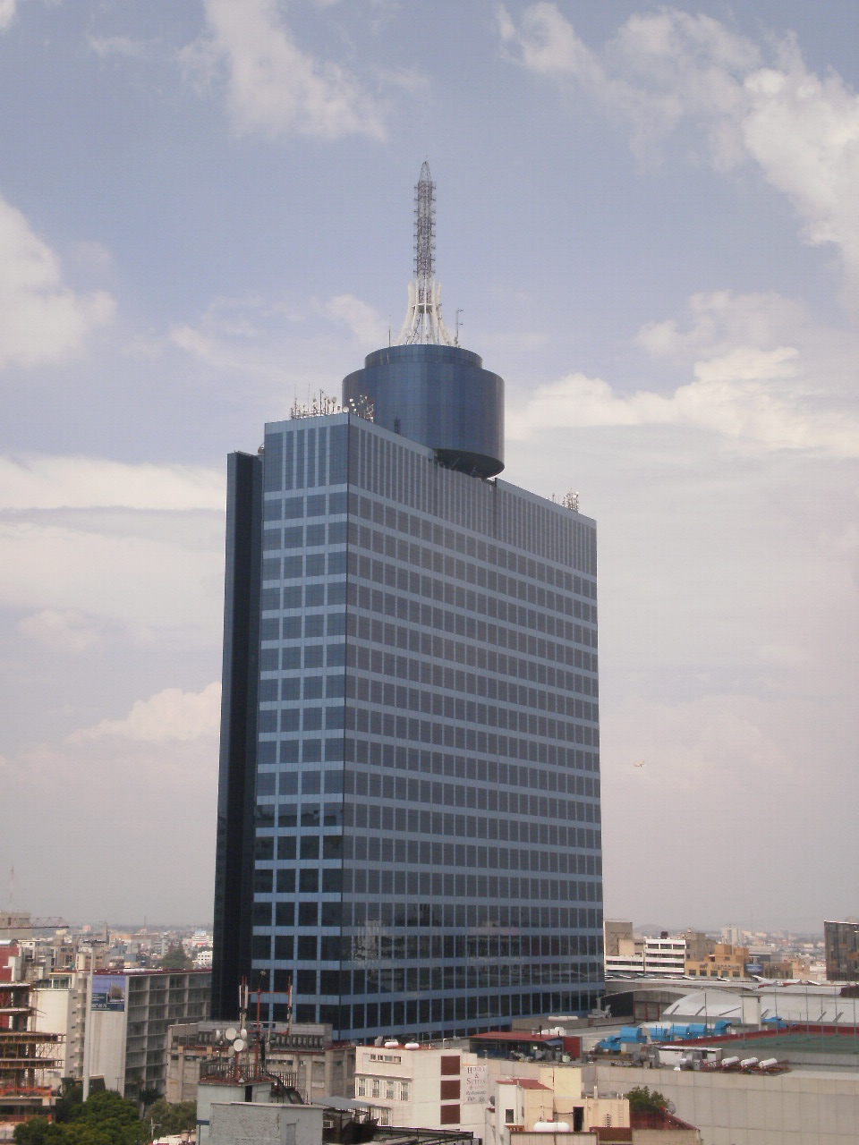 Worl Trade Center